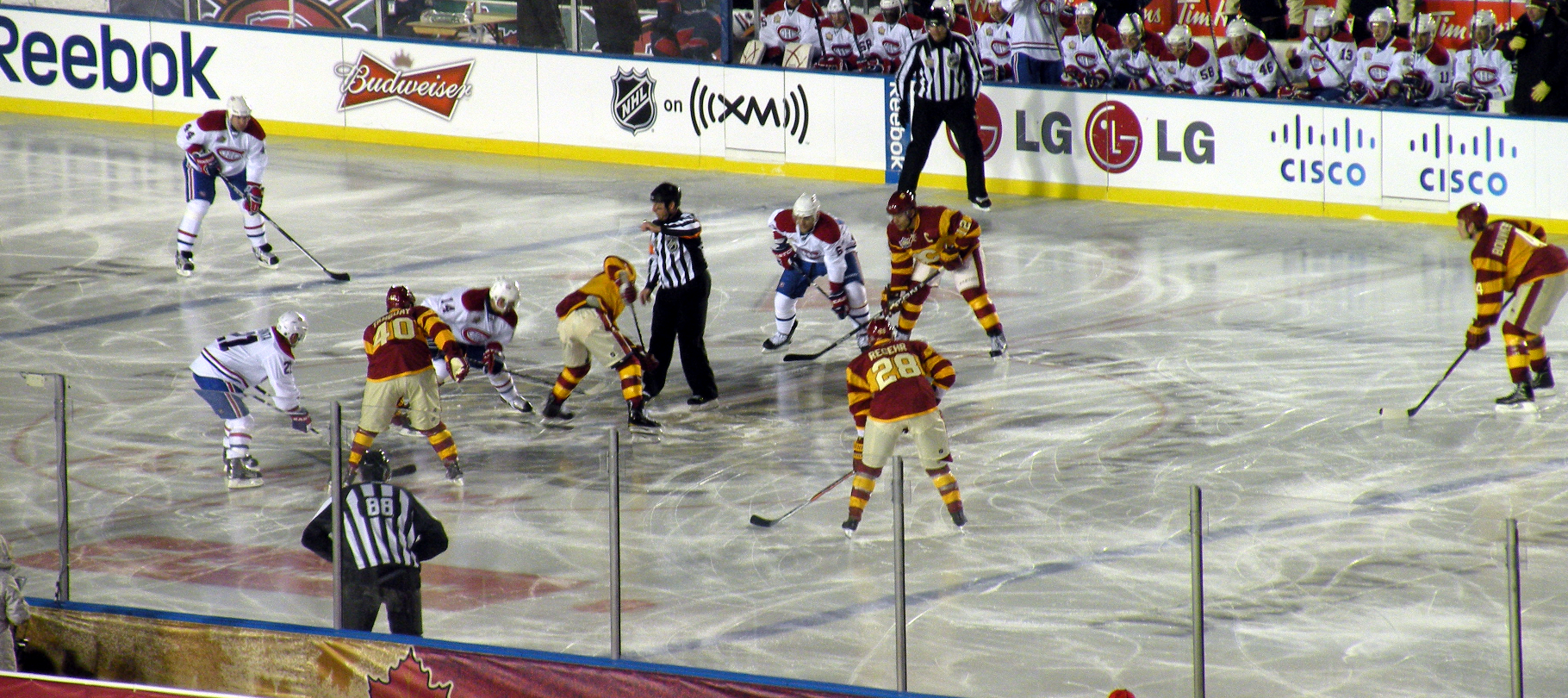 The Montreal Canadiens and Calgary Flames face off to begin the third period of the 2011 Heritage Classic at McMahon Stadium in Calgary.